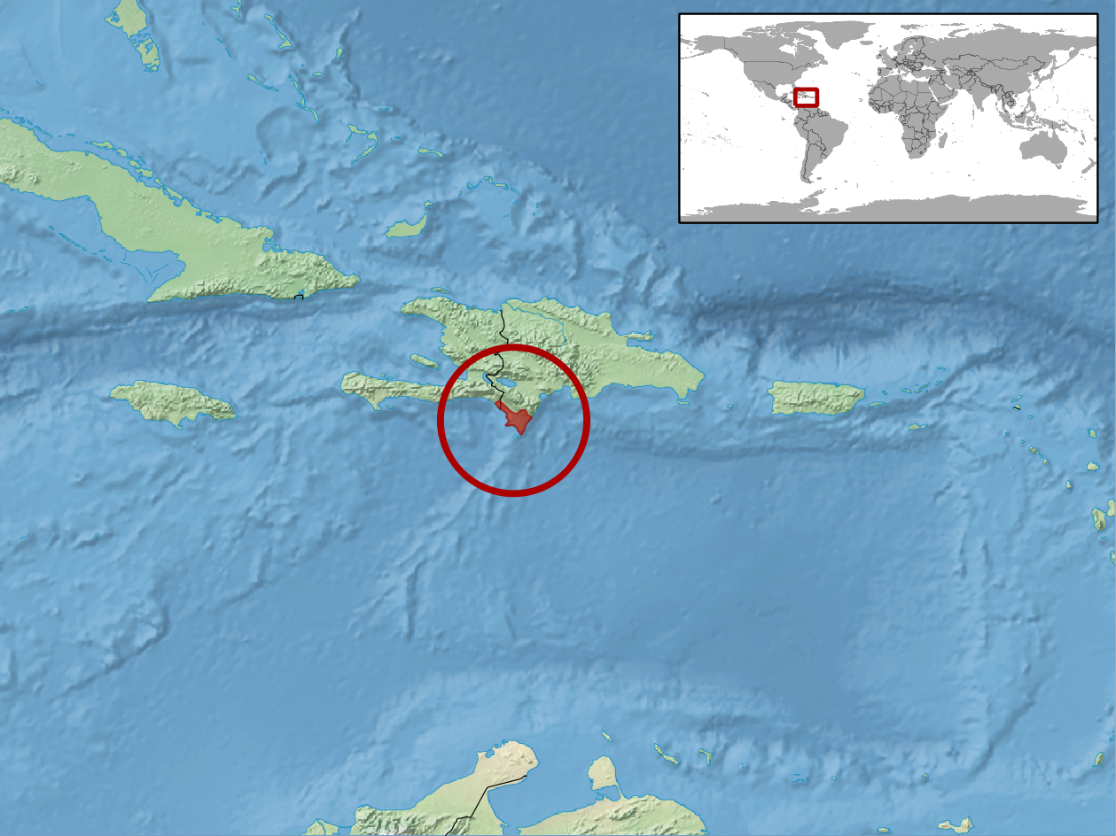 geographic distribution of Amphisbaena hyporissor (Native: Dominican Republic; Haiti)